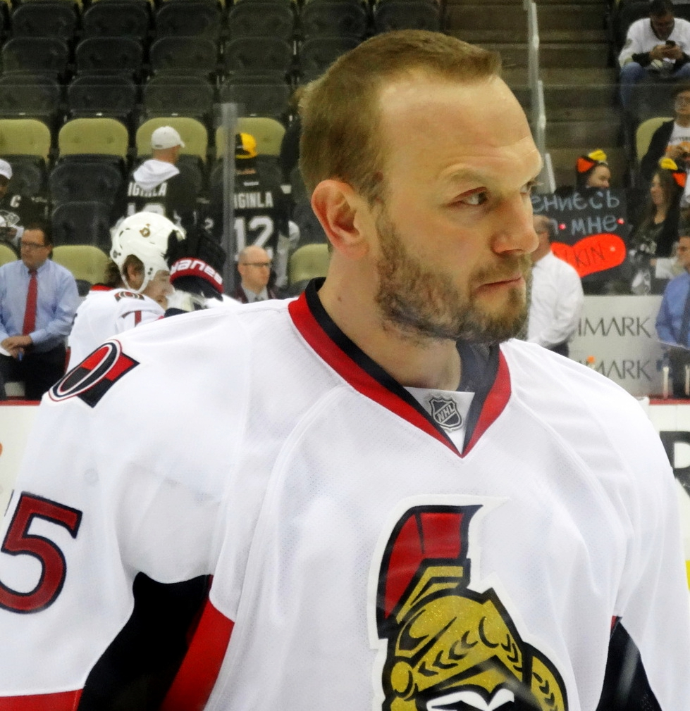 Ottawa Senators defenseman Sergei Gonchar during game two of their second round series against the Pittsburgh Penguins, May 17, 2013 at Consol Energy Center in Pittsburgh, PA.